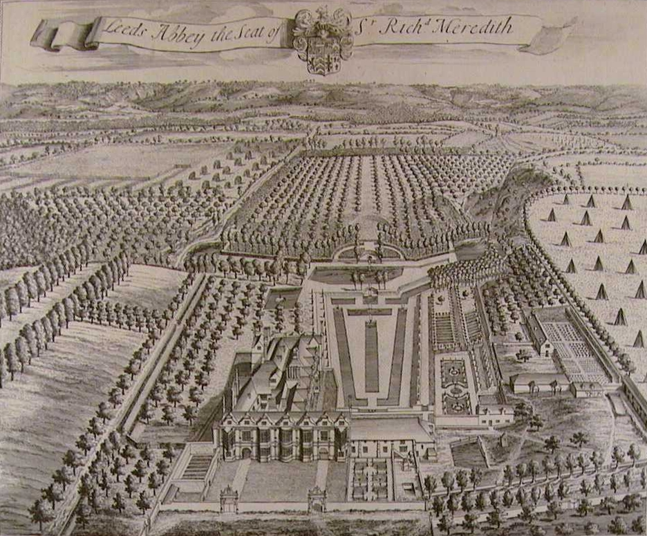 Leeds Abbey, the Seat of Sir Richard Meredith, Leeds, Kent